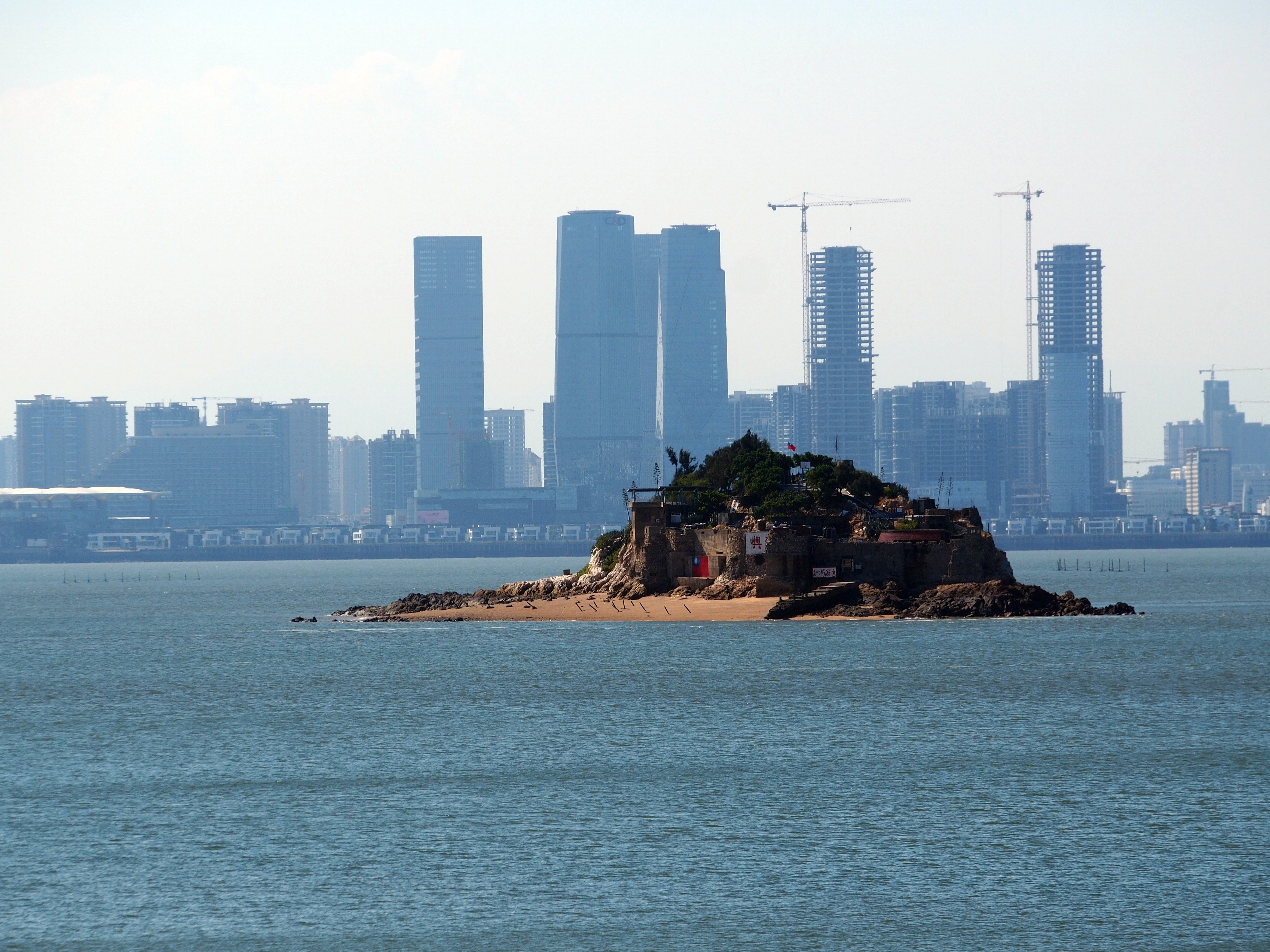 Lion Islet (Shi Islet) (ROC) as seen from Lesser Kinmen, Lieyu, Kinmen County, Fukien Province, ROC with Siming District, Amoy Island, Xiamen, Fujian Province, PRC in the background - 2014.09